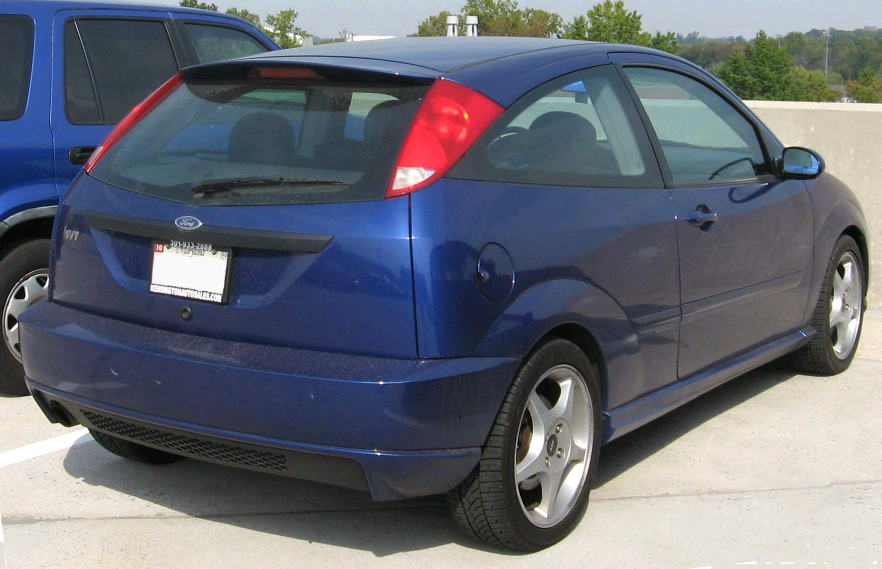 Ford SVT Focus photographed in College Park, Maryland, USA.